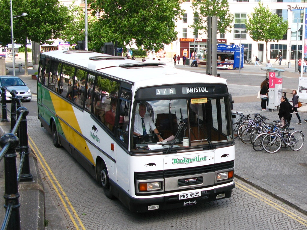 Badgerline coach 2098 (PWS 492S) heading out of the City Centre in Bristol towards Anchor Road. It has a Leyland Leopard PSU3E chassis which was originaly delivered as 2188 (OWS 178R) in 1978 with a Plaxton Supreme body, but this was replaced by the Plaxton Paramount body it now carries following a fire in 1982.